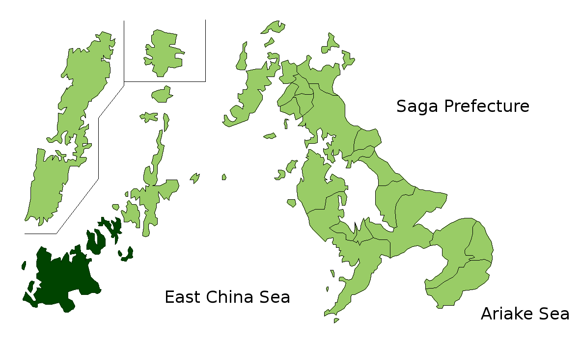 Map of Nagasaki Prefecture highlighting Goto city. Borders of map as of July, 2006. (blank map used from [1]) See also Image:NagasakiMapCurrent.png.